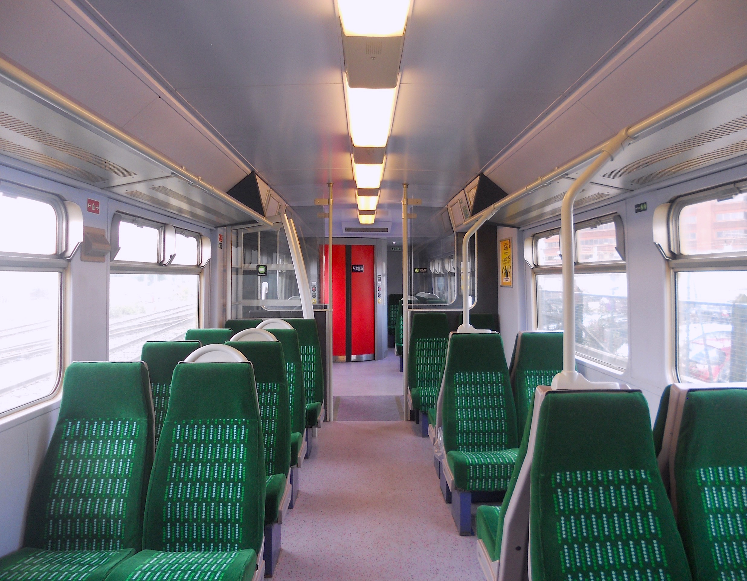 The interior of the TSO vehicle aboard a London Midland refurbished Class 319/4